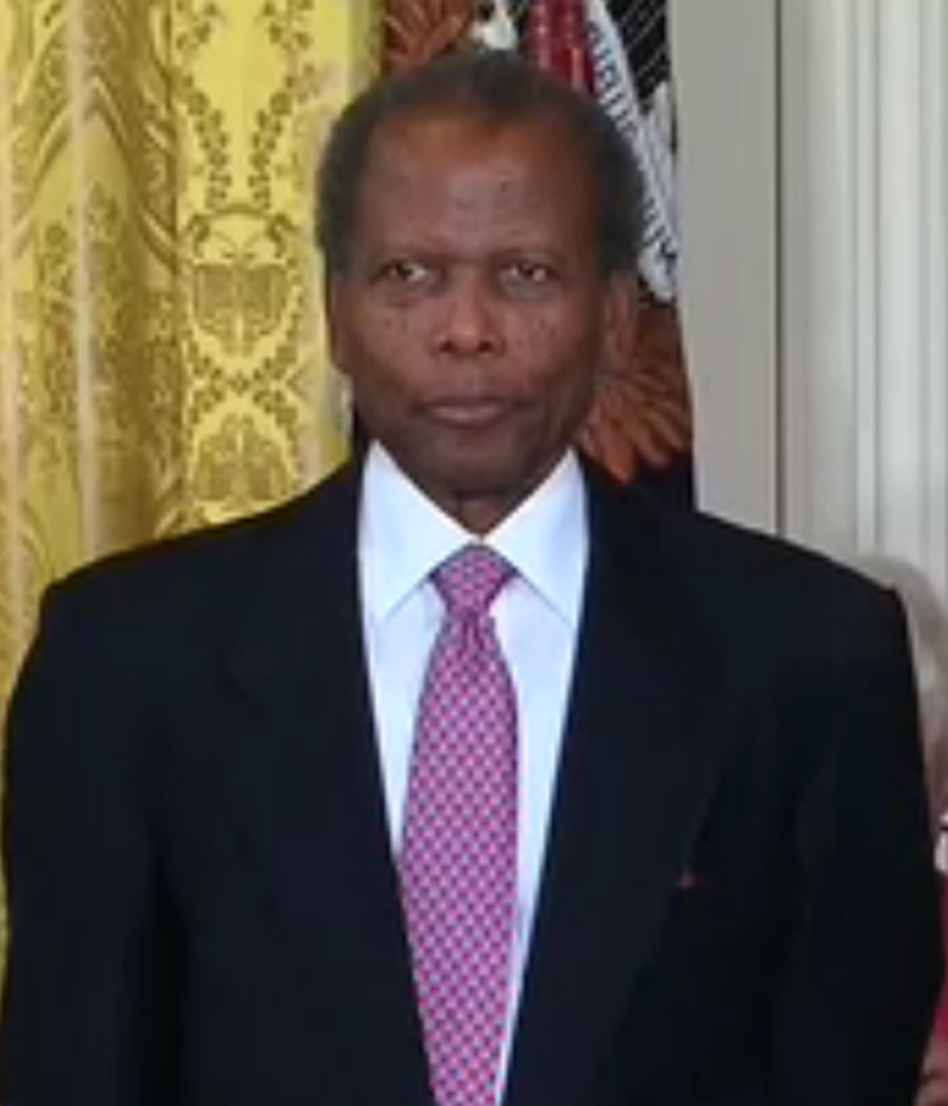 Actor Sidney Poitier receives the Presidential Medal of Freedom from President Barack Obama on August 12, 2009.